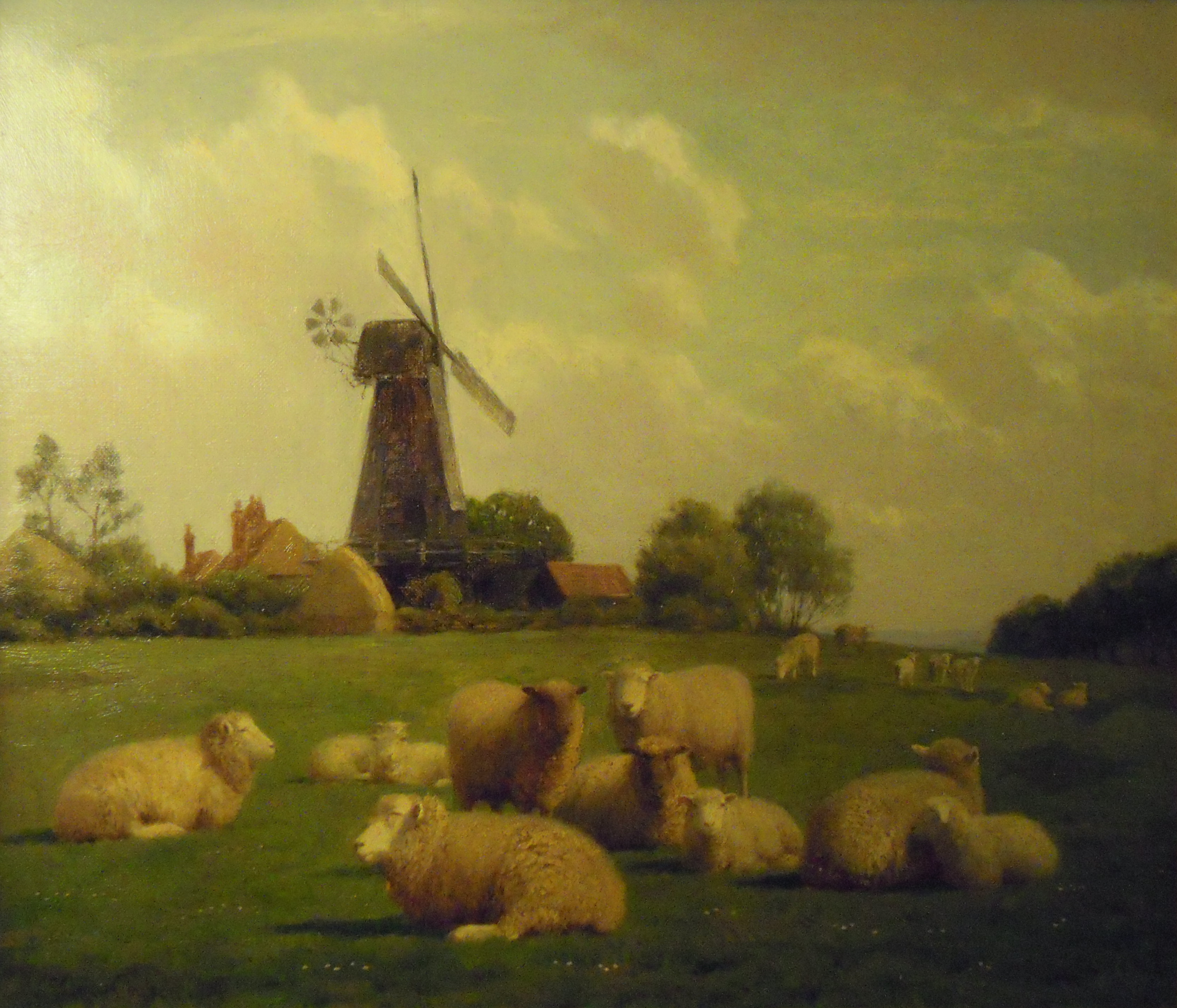 Photograph of the painting by William Sidney Cooper of Herne Mill (1914) located in Herne Bay Museum.